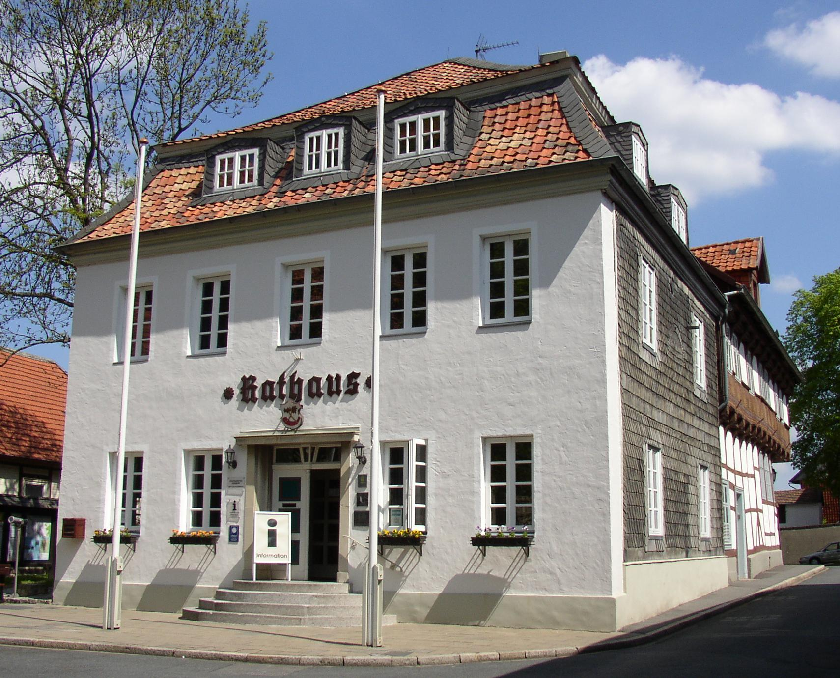 Town hall in Hornburg in Lower Saxony, Germany